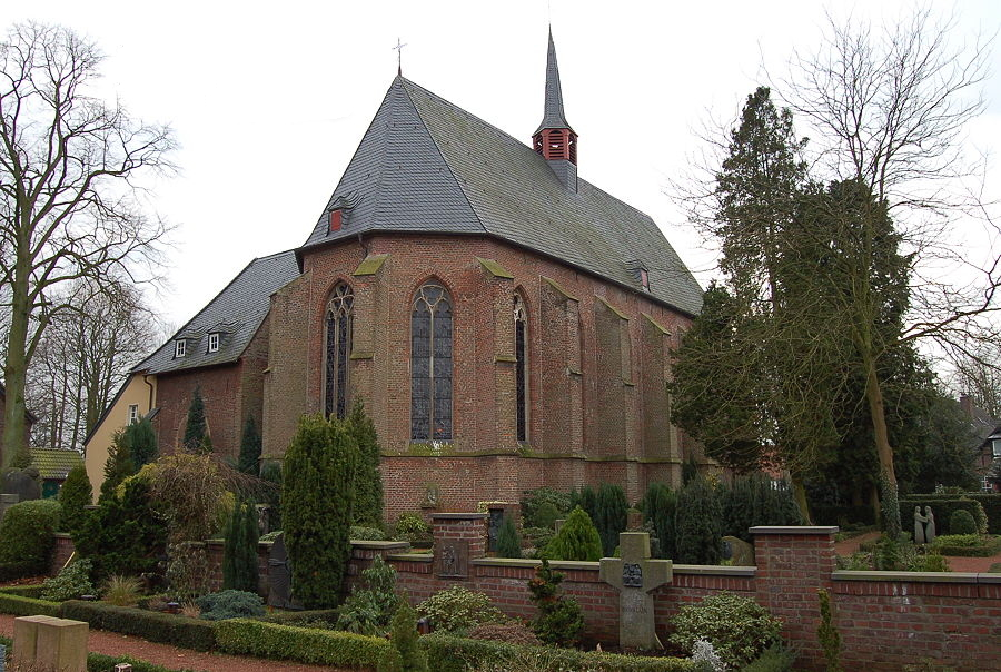 Abbey church of Hamminkeln, seen from south-east